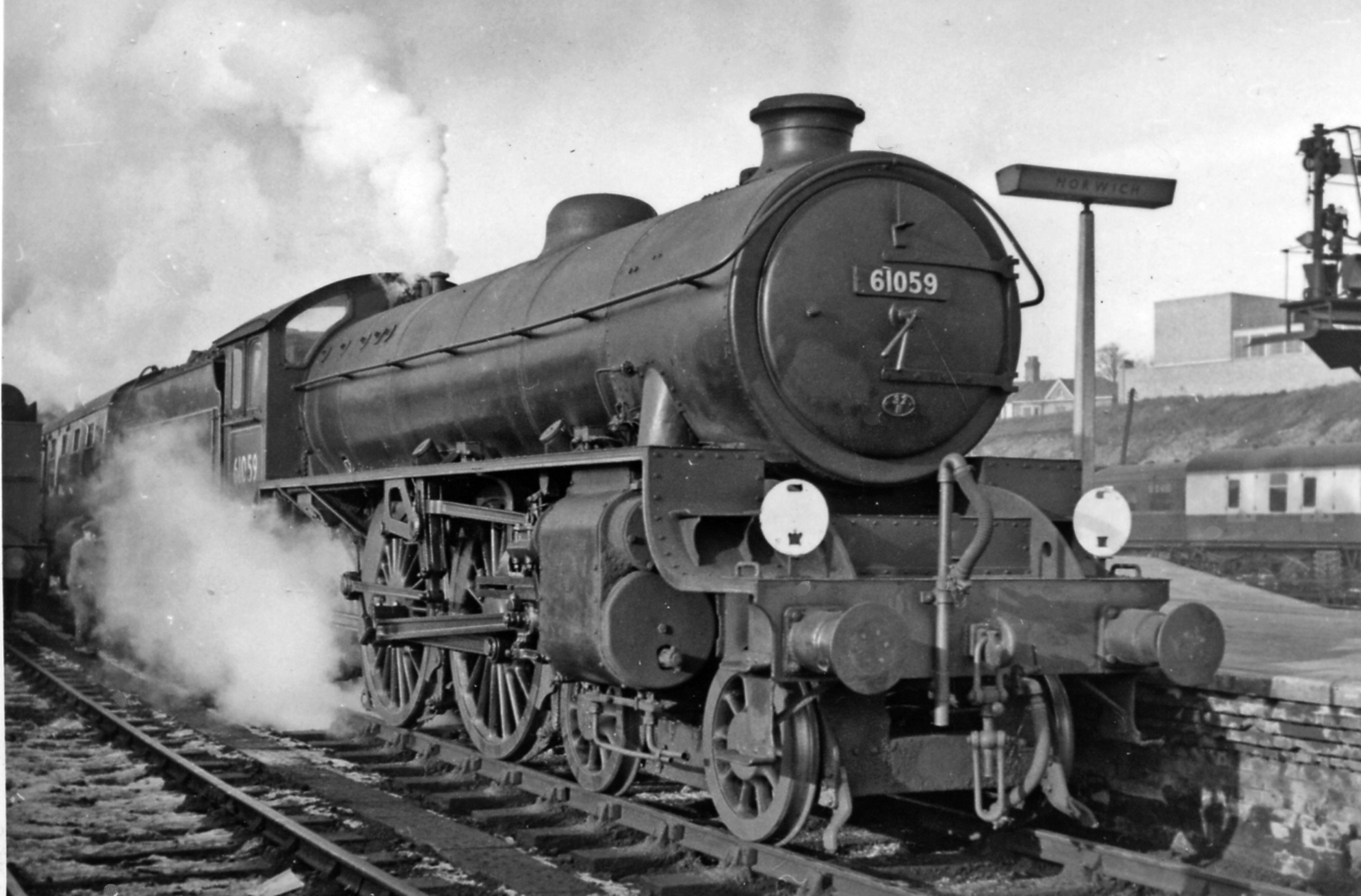 LNE Thompson B1 4-6-0 at Norwich Thorpe station. View NW, towards the buffer-stops. The B1s were introduced onto the principal ex-GE main line in 1946 and usurped the B17 '4-6-0s on express services until the advent of the BR 'Britannias' in 1951. Here B1 No. 61059 (built 7/46, withdrawn 11/63) is about to leave on an Up express - note the white discs - instead of (electric)headlamps used at night.